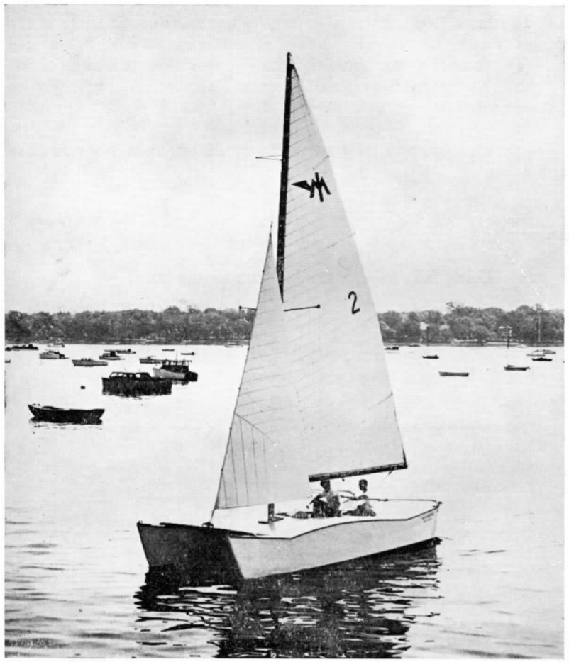 Black and white photograph of the historic Naramatac catamaran, as republished by the freely distributed 1963 reprint of the 1956 publication 'Outrigged Craft', publication #6 of the Amateur Yacht Research Society, freely available online.